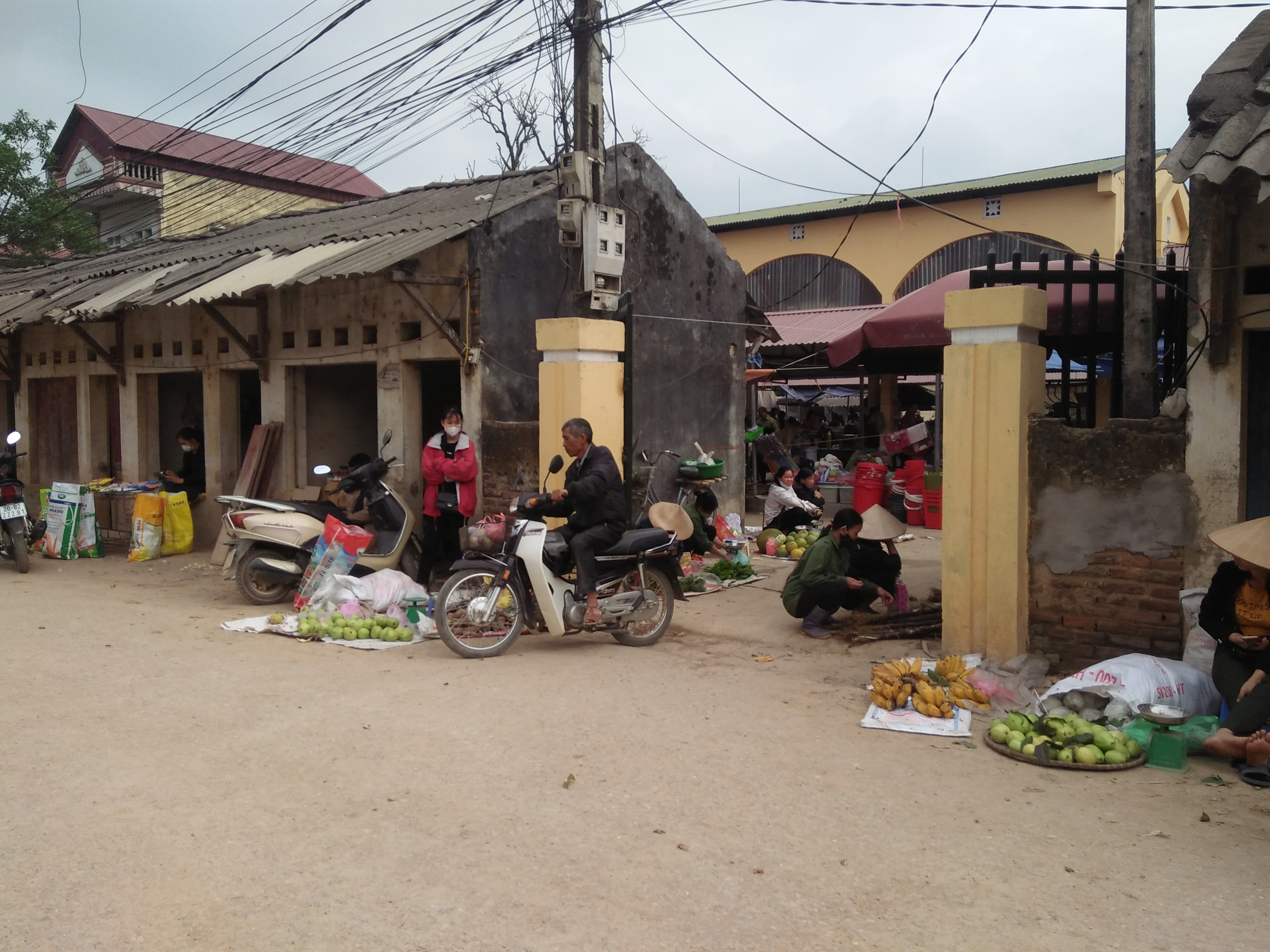 Chợ Hích